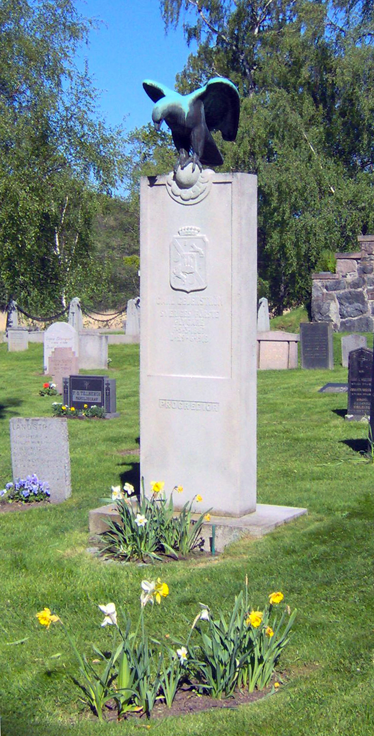 The tombstone of Carl Cederström, Sweden's first aviator, at Ingarö church, Värmdö in Greater Stockholm, Sweden. The memorial with the eagle with the downside of the fist, sculpted by Carl Fagerberg, was unveiled on Sunday, December 7, 1918. References: Vem är vem? Stockholmsdelen 1945, Carl Fagerberg, baron Carl Cederström's grave, Ingarö.